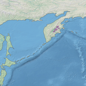 Ecoregion PA0604: Kamchatka-Kurile taiga (marked in purple, on Kamchatka Peninsula.) Sometimes called "Conifer Island"